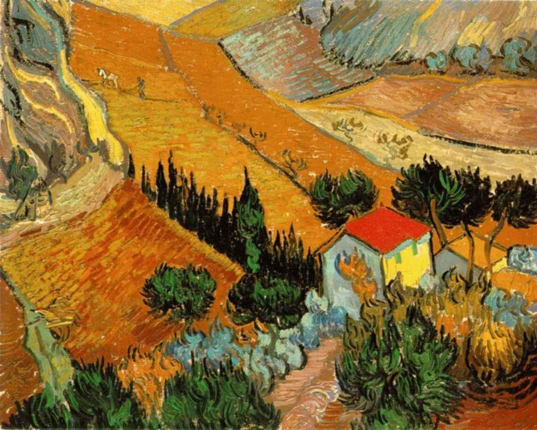 Oil painting reproduction of Vincent van Gogh.